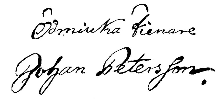 Signature of Johan Petersson, late 18th century Swedish actor.